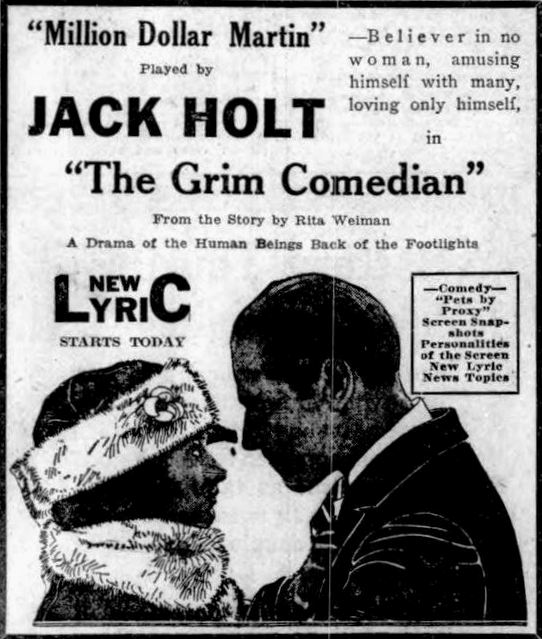 Newspaper advertisement for the American drama film The Grim Comedian (1921) with Phoebe Hunt and Jack Holt, on page 5 of the July 1, 1922 Duluth Herald.